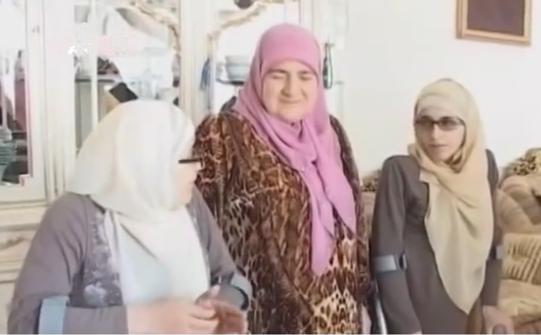 Zita and Gita Rezahanovy were born 1991 as conjoined twins in the village of West Sokuluk district of Chui oblast. They had together only three legs. In the Central Children`s Clinical Hospital named after Filatov in Moscow, the twins were separated in the March 26, 2003. Afterwards they needed constant medical assistance.